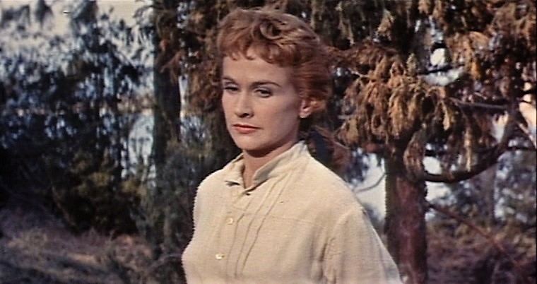 This image is a screenshot from a public domain trailer for the 1958 film, Money, Women and Guns. Trailers for movies released before 1964 are in the Public Domain because they were never separately copyrighted.